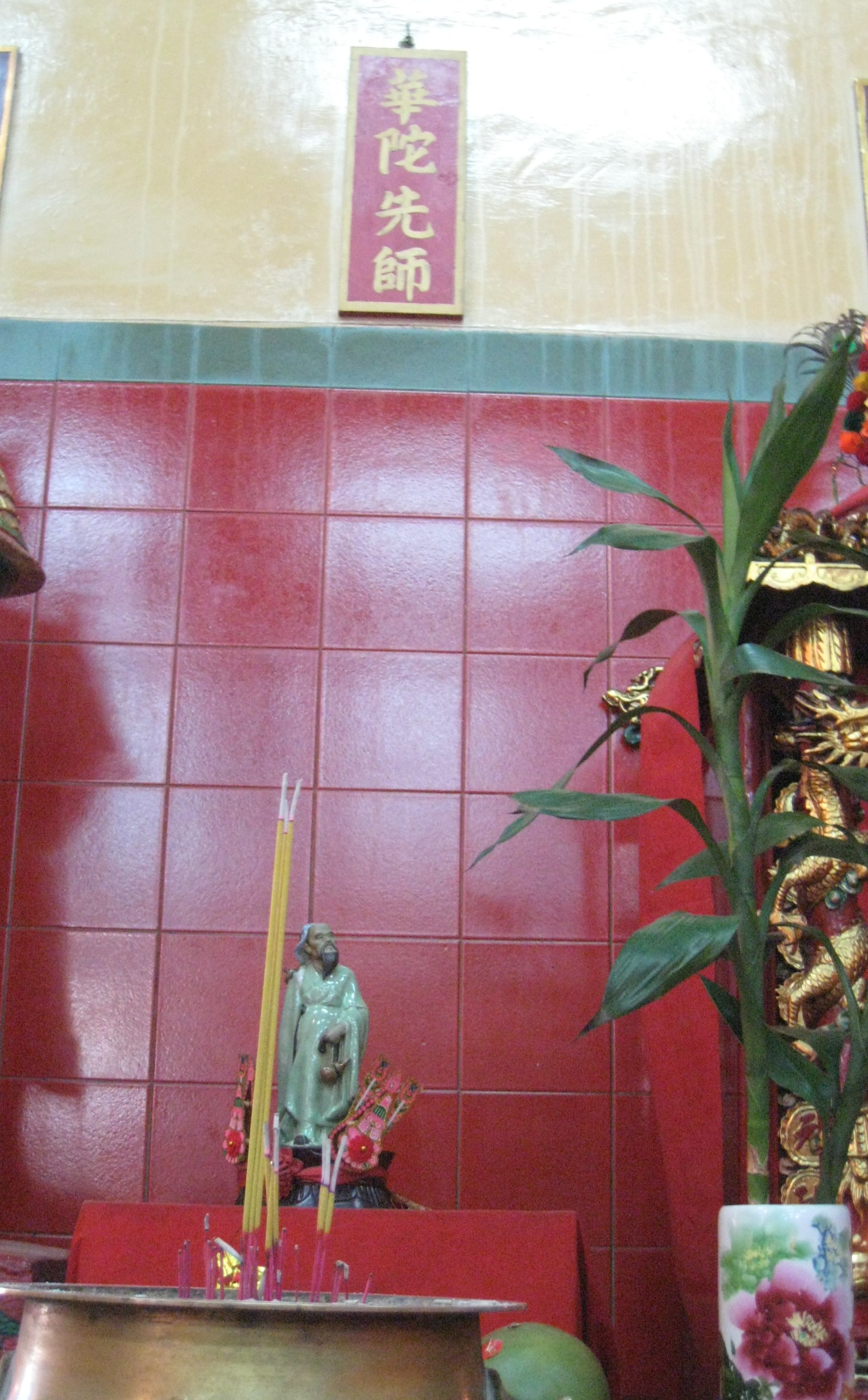 Statue of Hua Tuo in Tin Hau Temple of Stanley